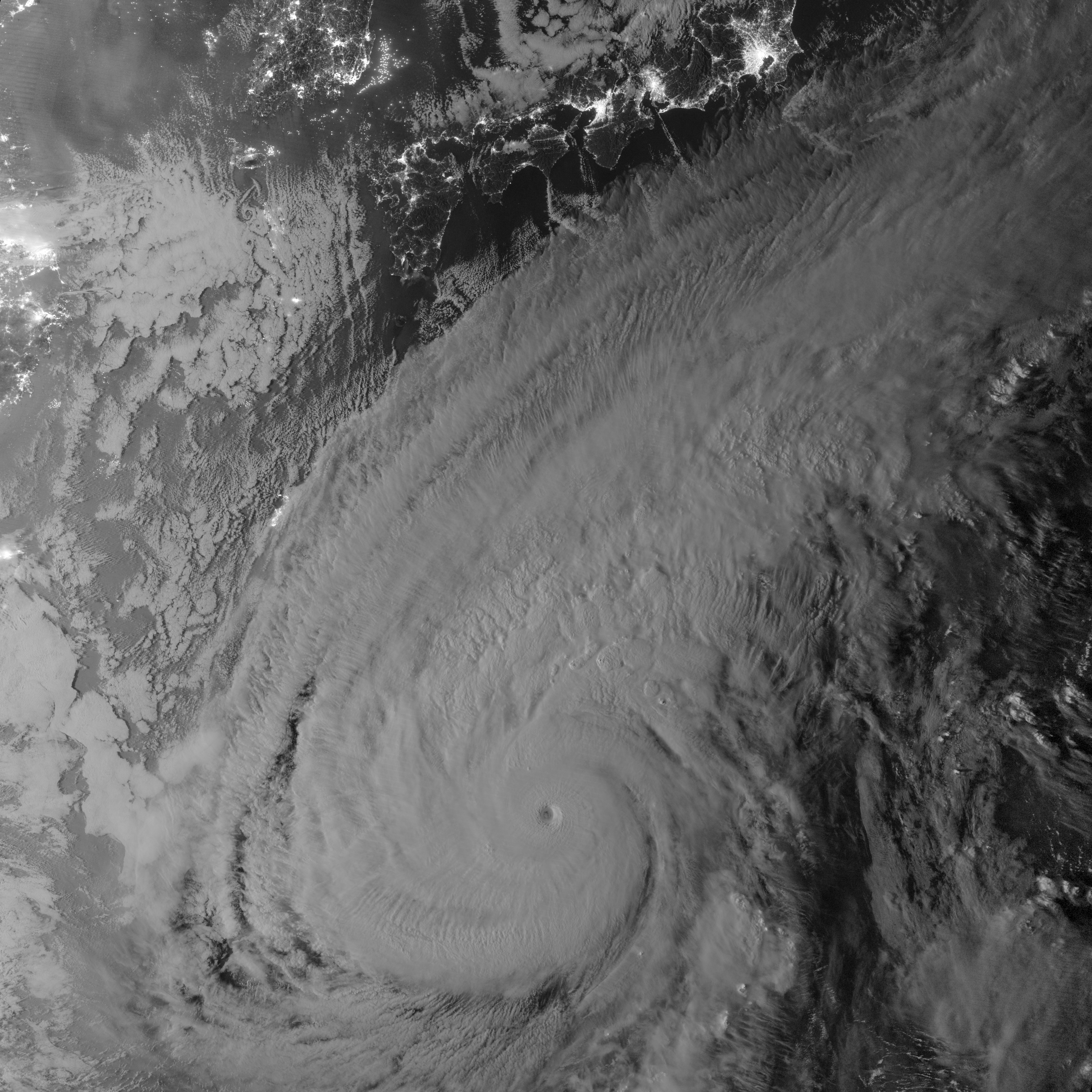 The Visible Infrared Imaging Radiometer Suite on the Suomi NPP satellite captured this image of Super Typhoon Nuri at 1:42 a.m. local time (1642 Universal Time) on November 4, 2014. The image was created with the instrument’s day-night band, which detects light in a range of wavelengths from green to near-infrared and uses light intensification to enable the detection of dim signals. The storm is lit by moonlight in the image above. Around the time that the image was acquired, the U.S. Navy’s Joint Typhoon Warning Center reported sustained wind speeds of 130 knots (150 miles or 240 kilometers per hour). That wind was down from the 155 knot (180 mph) winds that were reported all day on November 3.